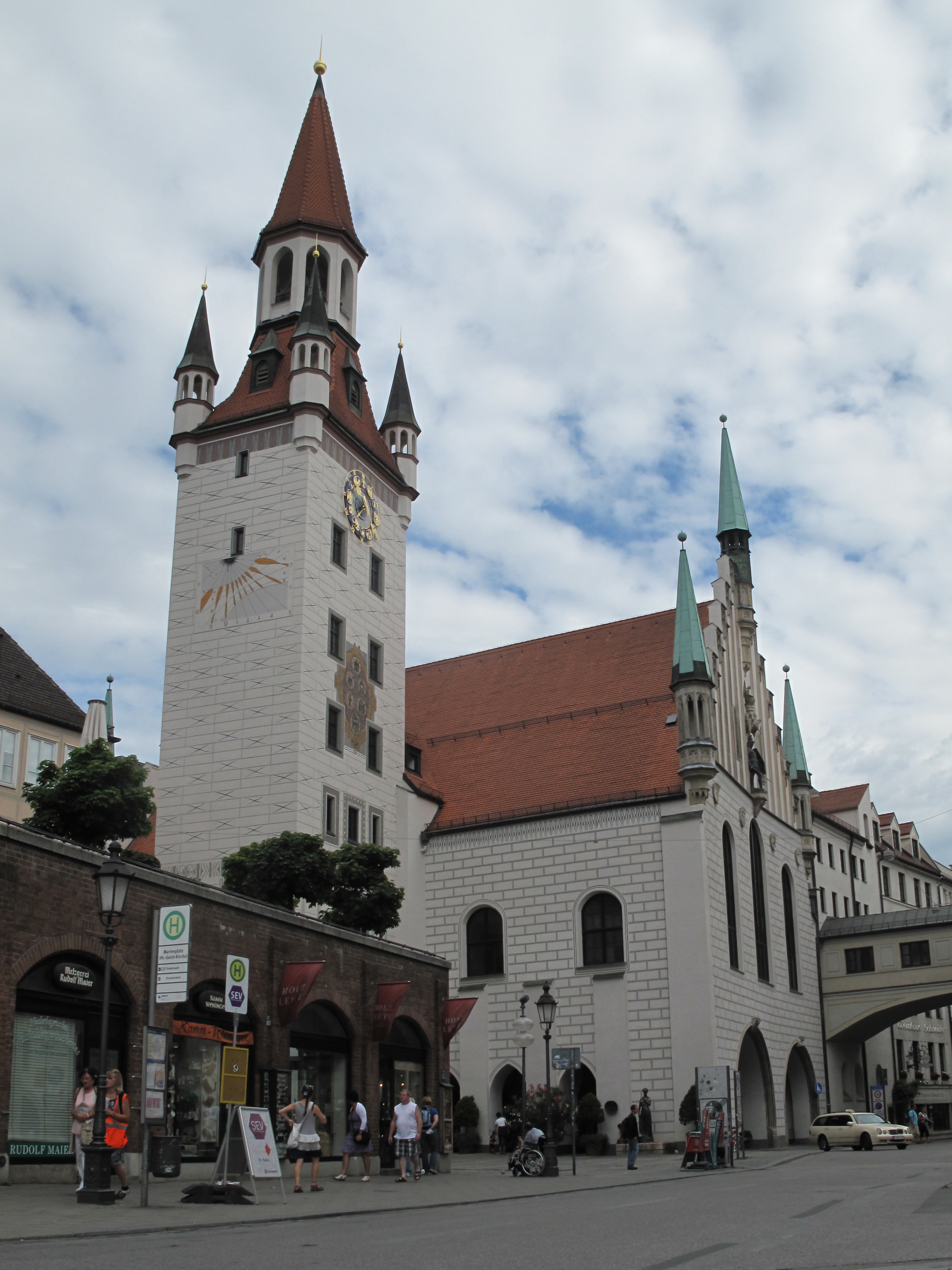 Munich, former townhall